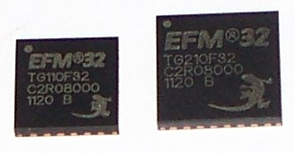 EFM32 Tiny Gecko Microcontrollers in QFN24 and QFN32 packages